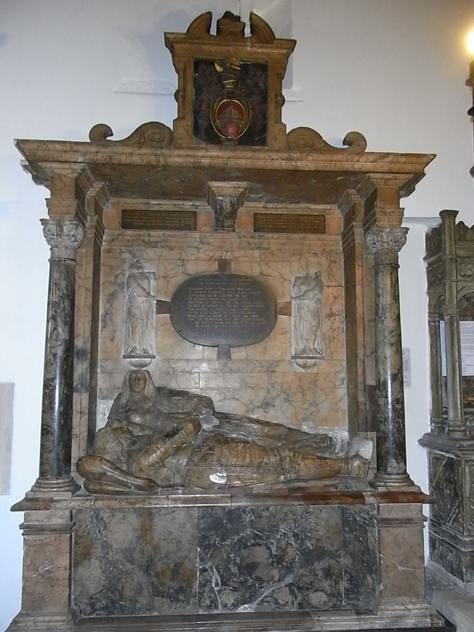 Marble monument (c.1635) to Sir Baynham Throckmorton, 2nd Baronet(d.1664) and his wife Margaret Hopton(d.1635). Gaunt's Chapel, ("Lord Mayor's Chapel/St Mark's Church") Bristol.